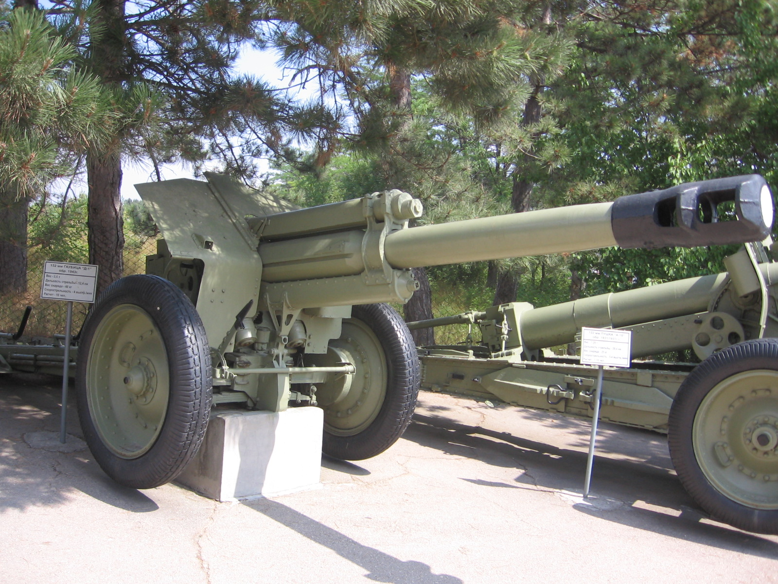 Soviet 152 mm howitzer M1943 (D-1), manufactured in March 1946, is displayed at the Museum of Heroic Defense and Liberation of Sevastopol on Sapun Mountain in Sevastopol.